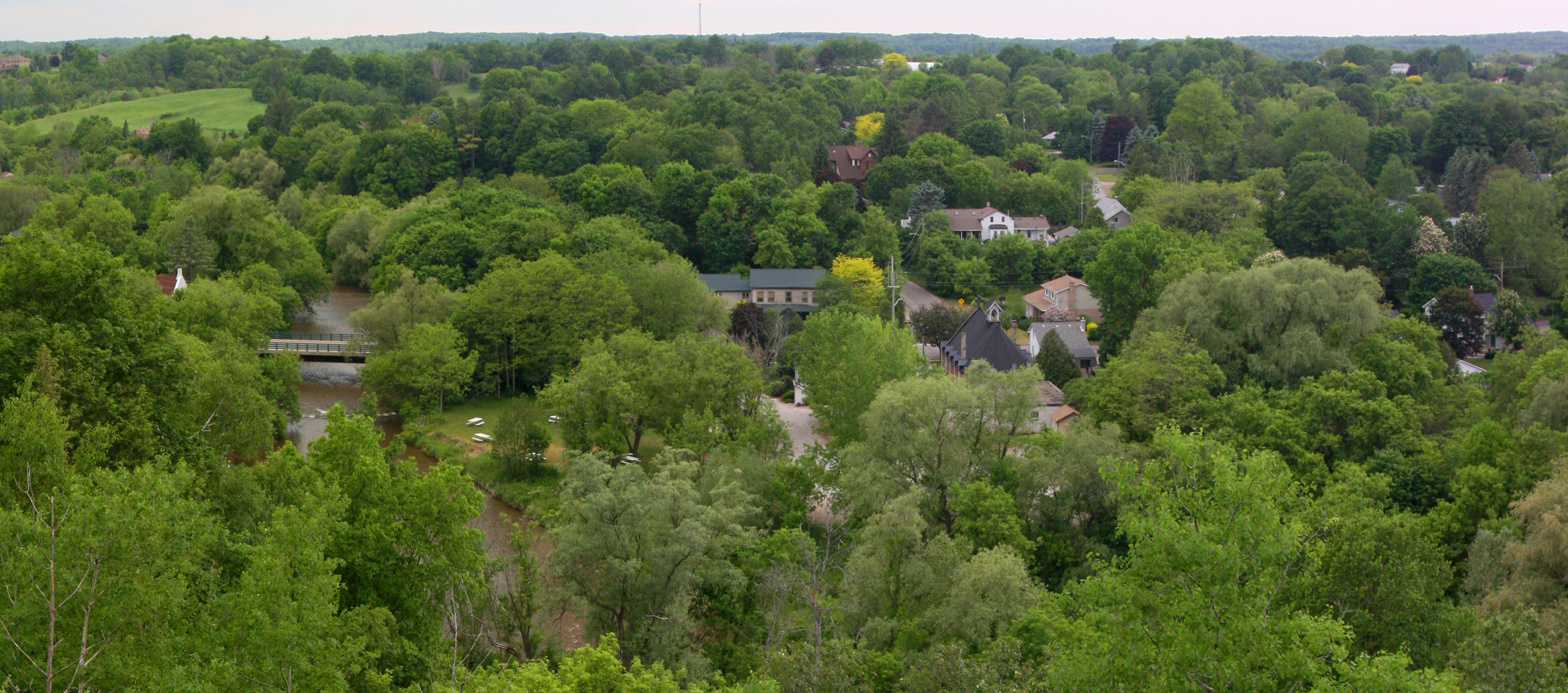 Glen Williams Panorama, Glen Williams, Ontario, Canada. Photo taken from the Glen Williams Cemetery Lookoff in May of 2012.